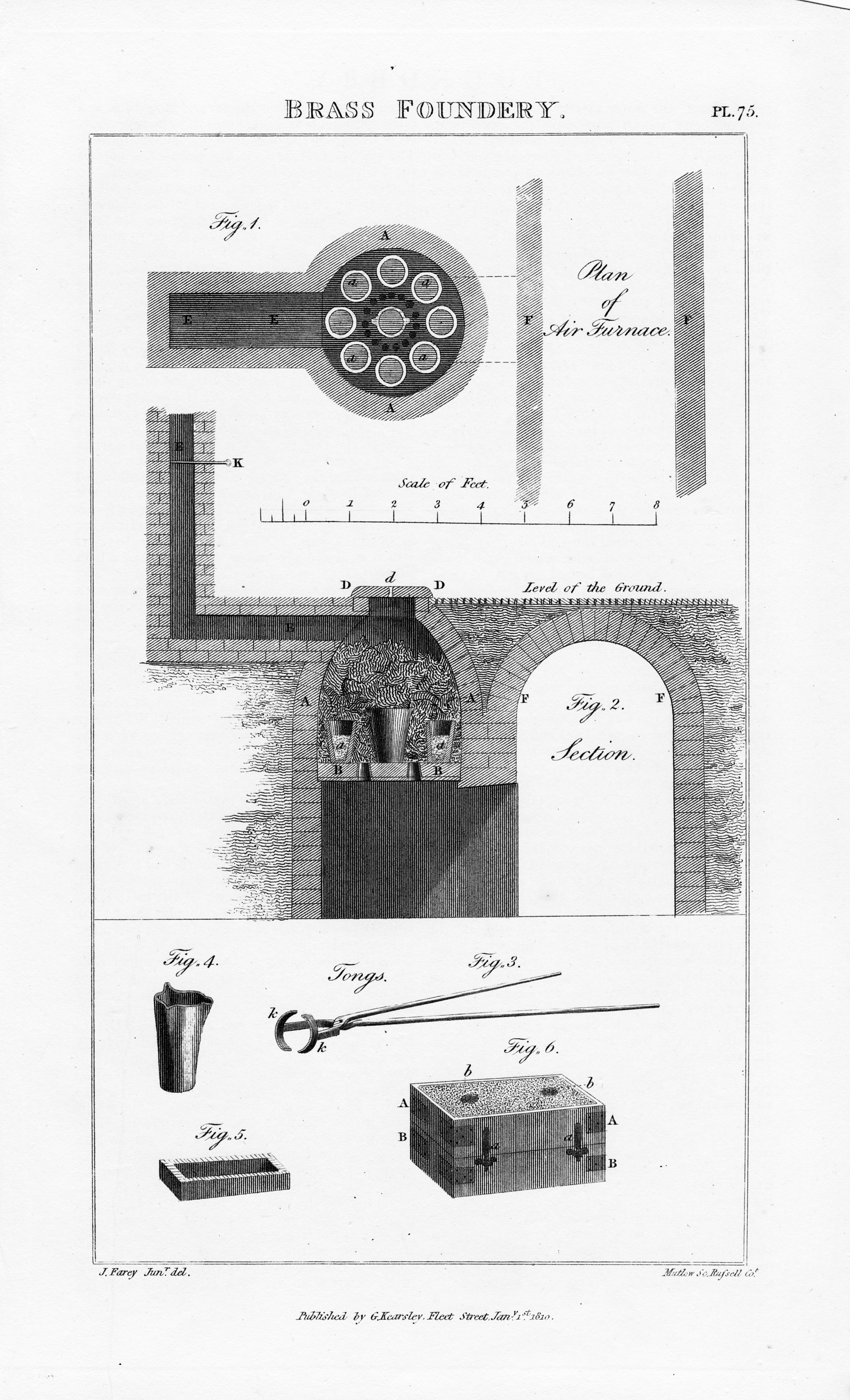 Plate 75 from Pantologia featuring Brass Foundry